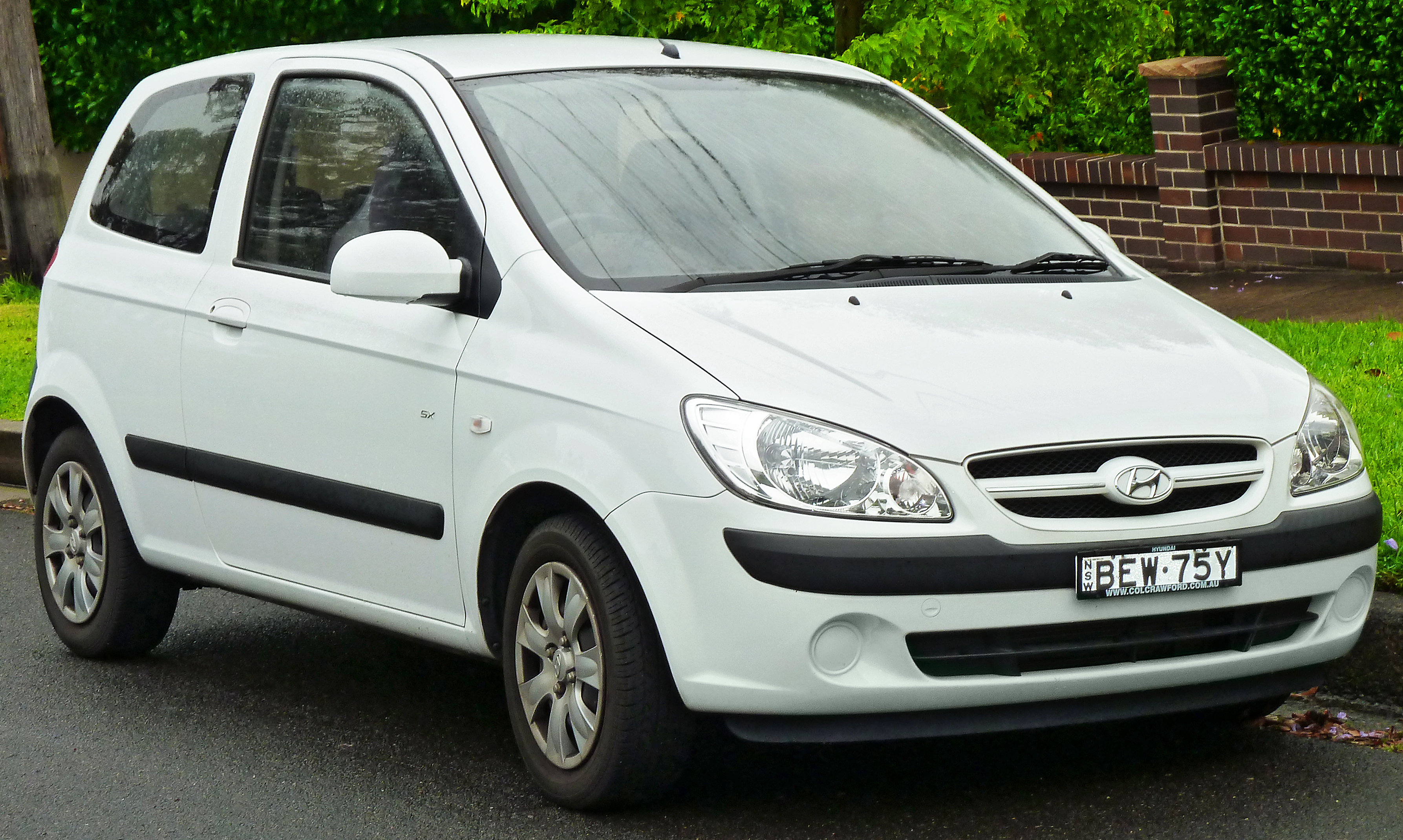 2007 Hyundai Getz (TB MY07) SX 3-door hatchback. Photographed in Roseville, New South Wales, Australia.